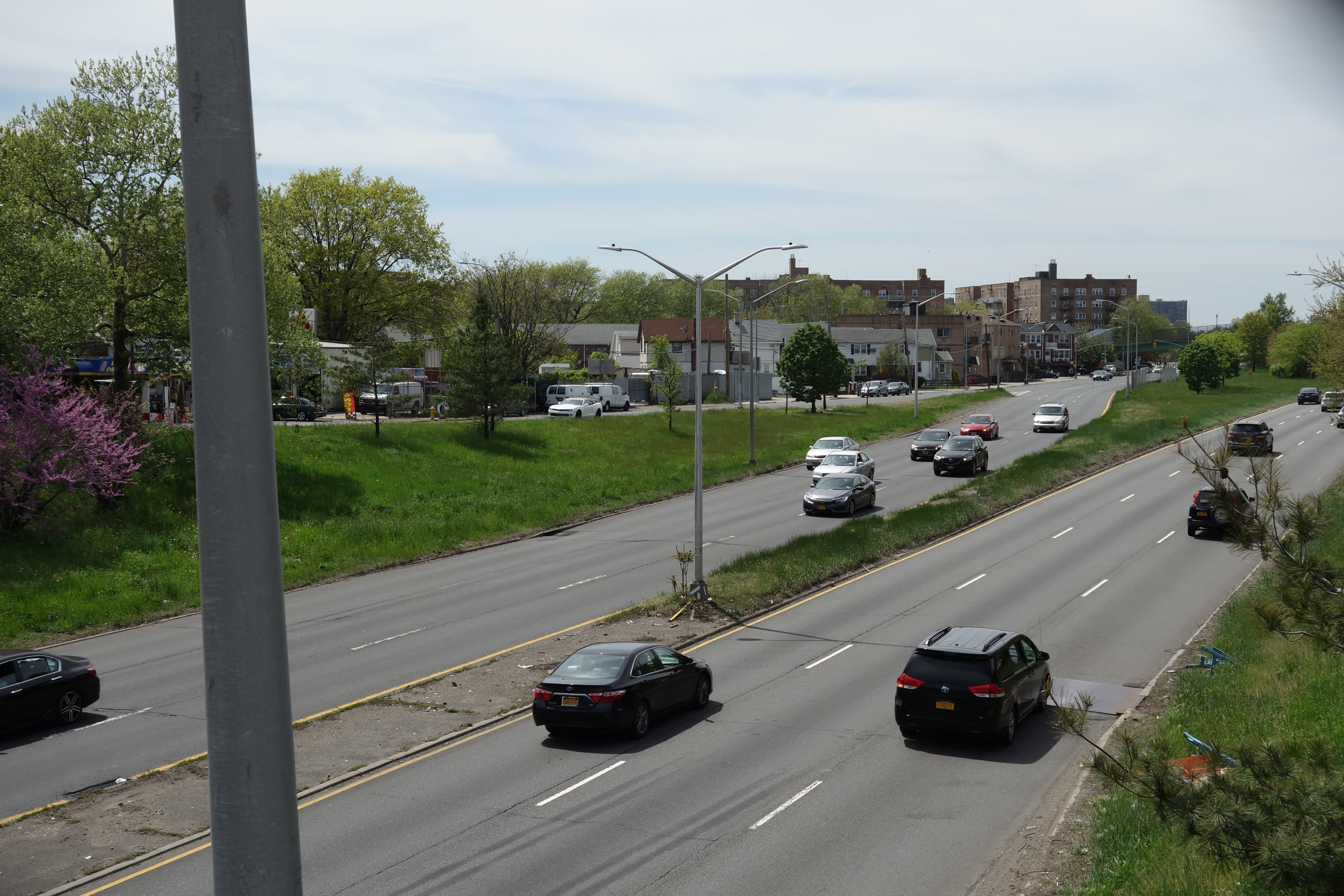 The eastbound Nassau Expressway (left) and the westbound North Conduit Avenue (right) crossing under Cross Bay Boulevard in Ozone Park / Howard Beach (Lindenwood), Queens. This is the beginning of the eastbound Nassau Expressway, which continues parallel to the Belt Parkway circumscribing JFK Airport. North Conduit Avenue, meanwhile, occupies the space meant for the westbound expressway, which was to continue along the Conduit median as the Bushwick Expressway to the Williamsburg Bridge. South Conduit Avenue, meanwhile again, ends at Cross Bay Boulevard.